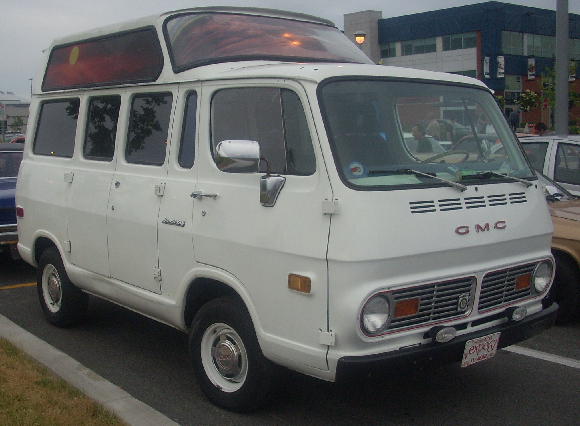 1967 GMC Handi-Van photographed in Laval, Quebec, Canada at Centropolis Laval.